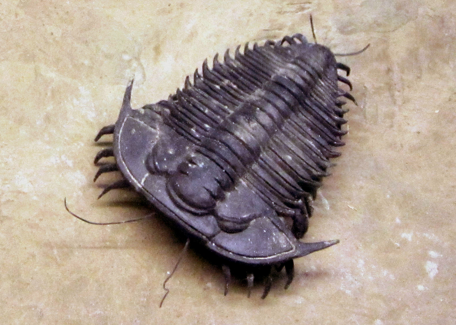 Trilobite tracks at World Museum Liverpool, England.